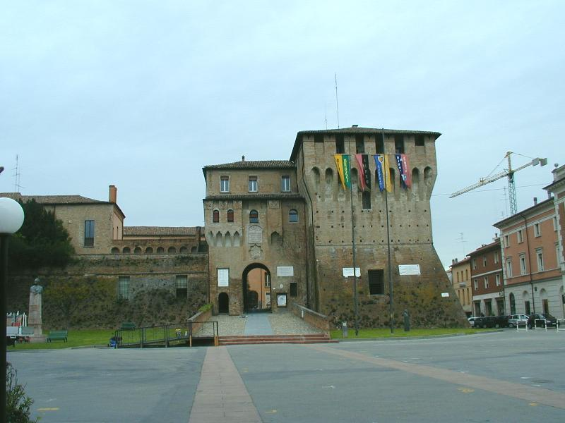 Lugo Castello